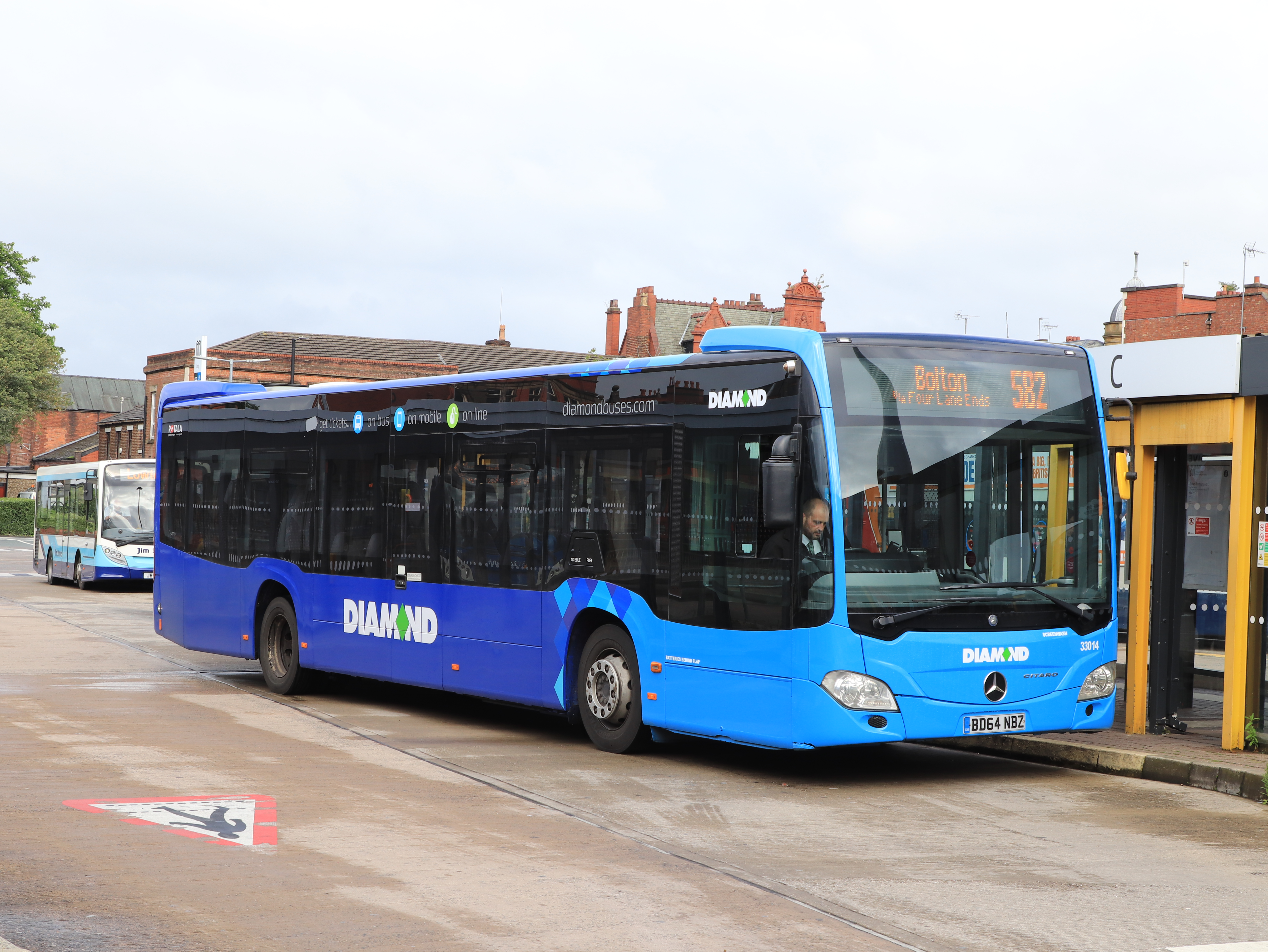 Bus 33014 of Diamond Bus North West, a 2014 Mercedes Citaro new to YourBus